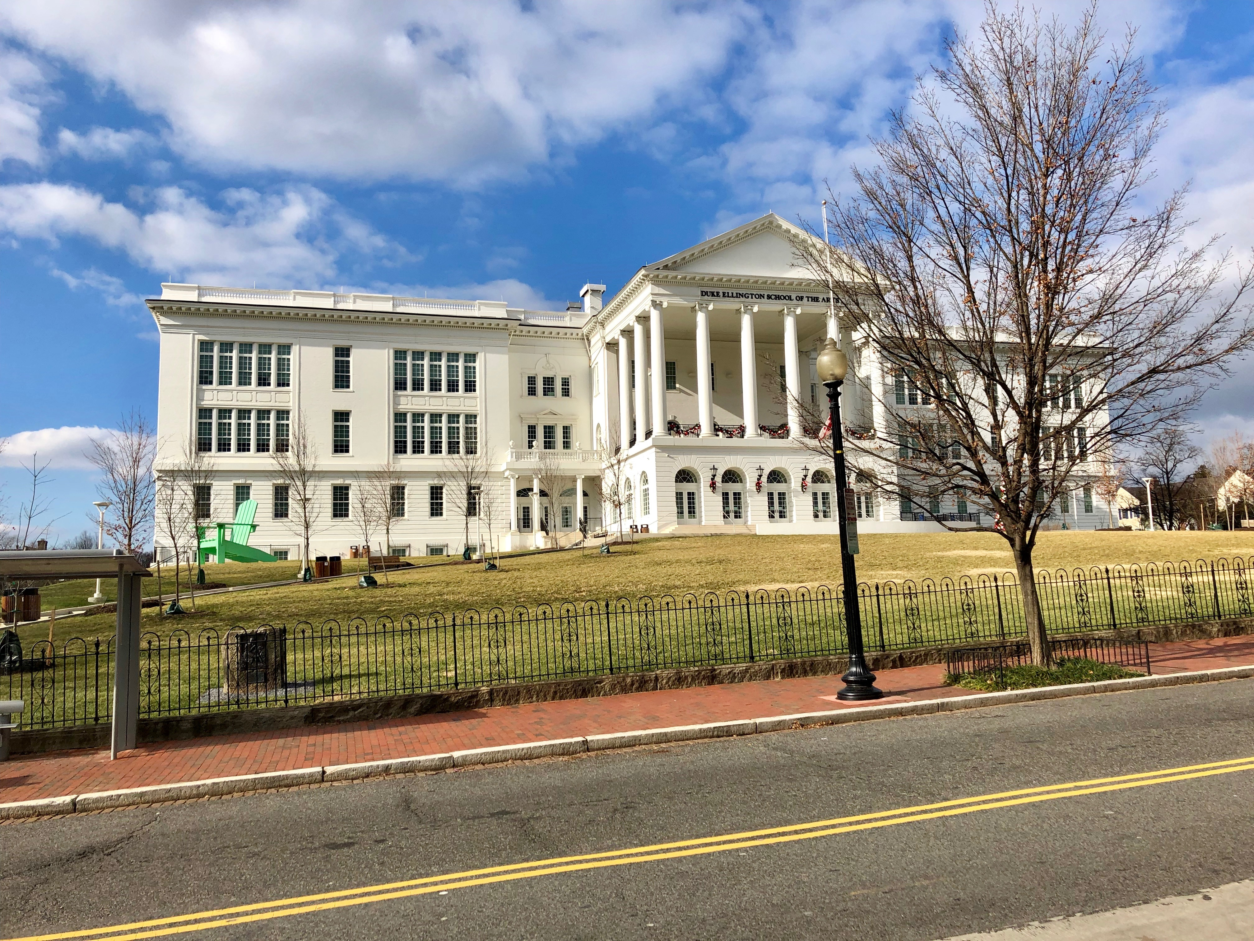 Duke Ellington School of the Arts, Georgetown, Washington, DC